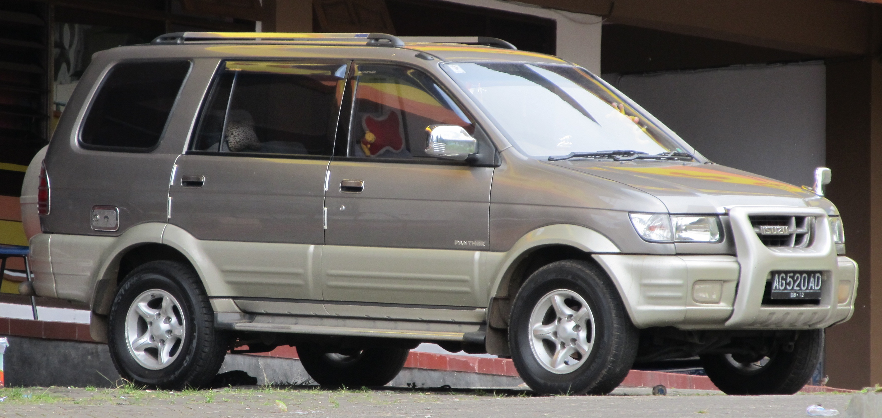 '02 Isuzu Panther photographed in Bali,Indonesia